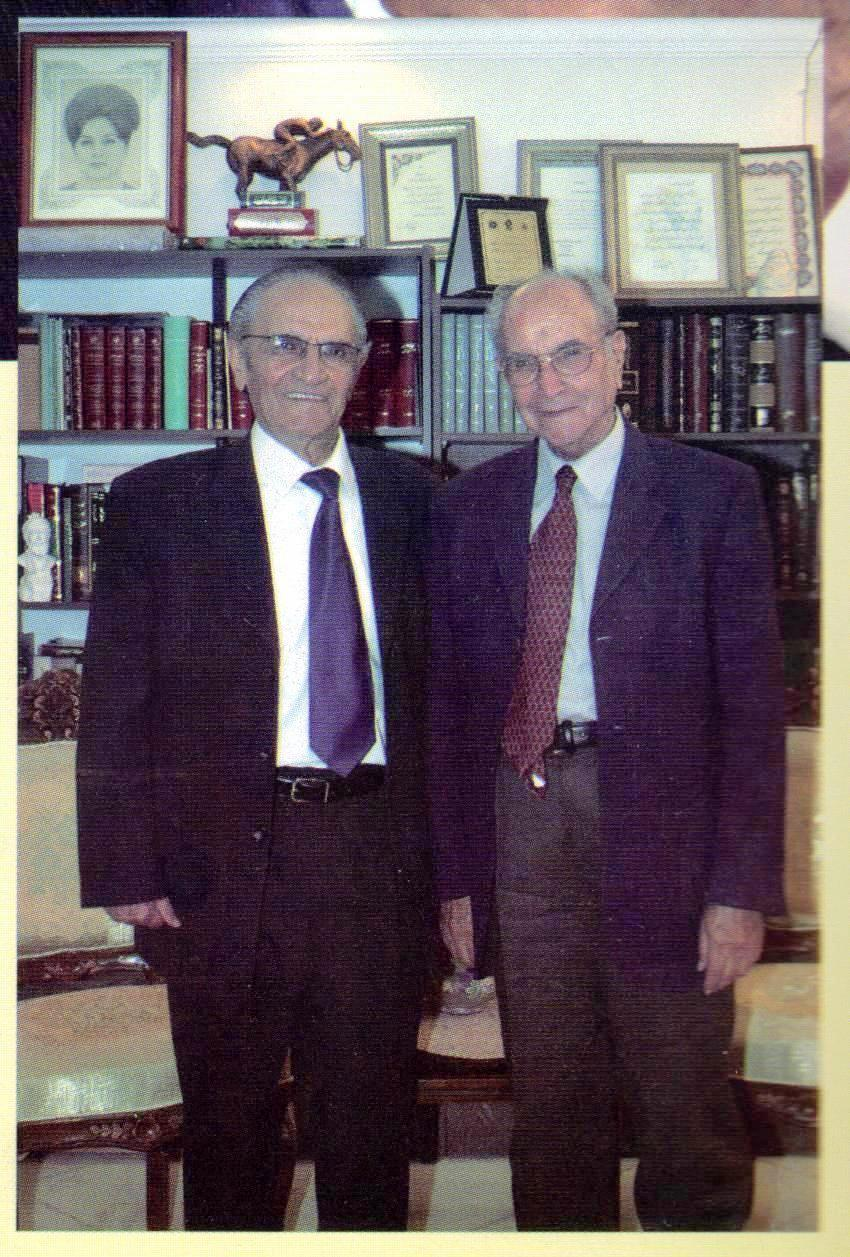 Drs. Habibollah Hedayat & Vaez-Zadeh in 2006 Note: This image was uploaded using my account, since User:Taghzieh was not yet autoconfirmed. It was uploaded from the computer of User:Taghzieh, who personally assured me that he had taken the picture himself, and that he was willing to release it under the GFDL and the CC-by-sa 3 licenses. DES (talk) 22:05, 15 March 2010 (UTC)